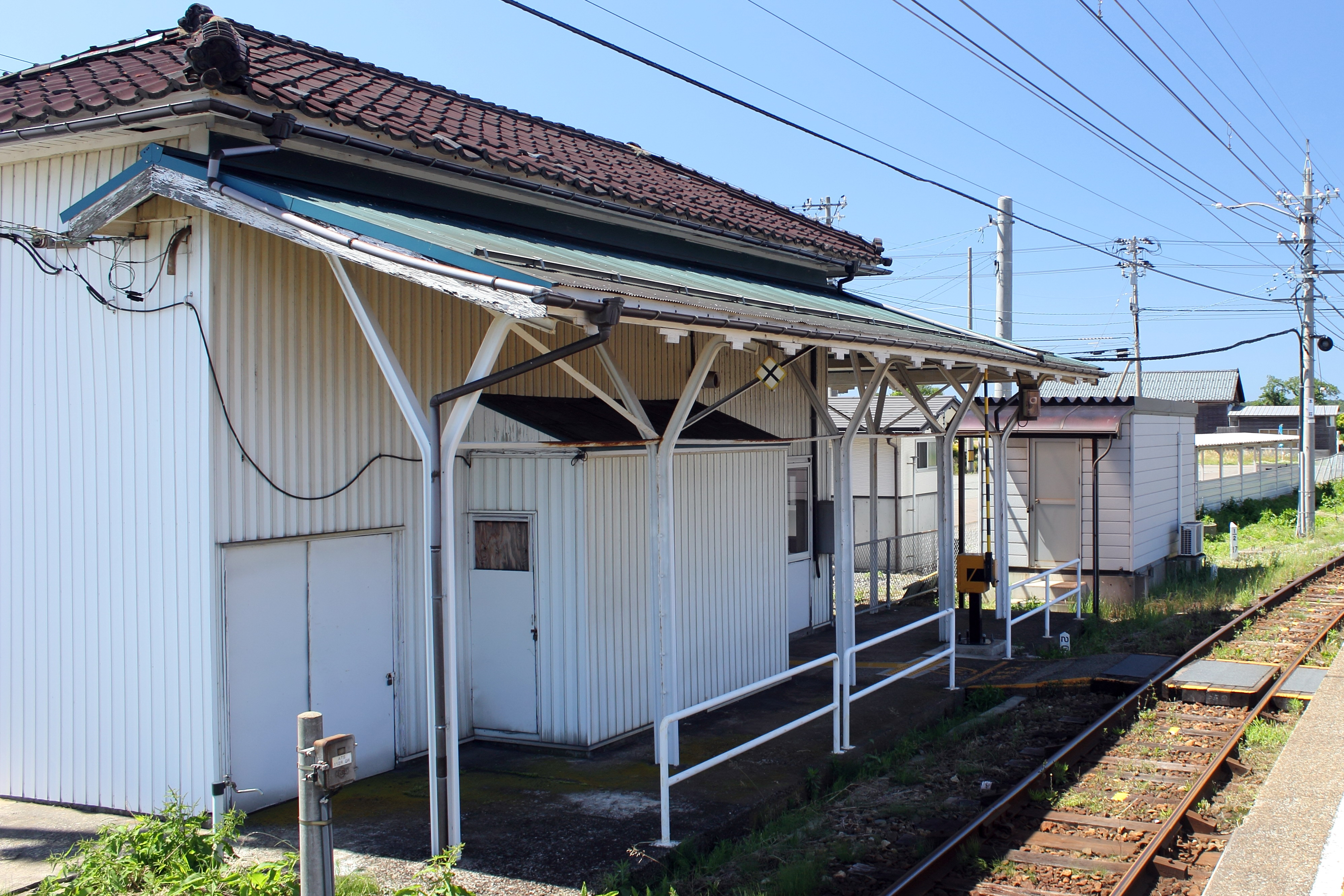 Honjyo Station in Fukui Prefecture, Japan Eaves made of old rails